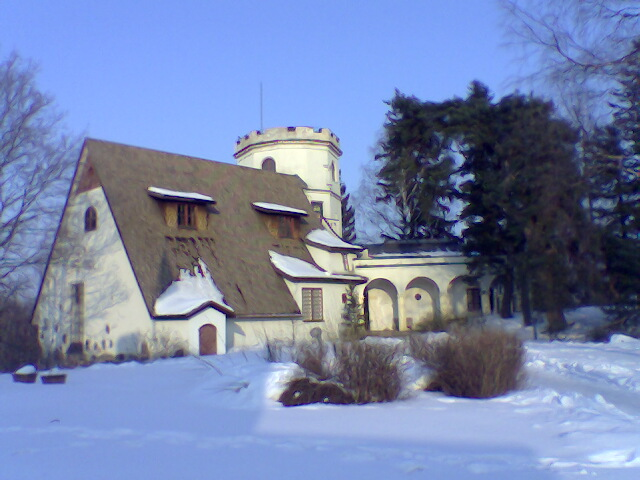 Tarvaspää — in Espoo, Finland. The atelier and home of artist Akseli Gallen-Kallela. It's now a historic house museum. Example of National Romantic style architecture.